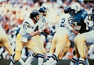 A football card from the 1986 Jeno's Pizza NFL football card stickers set of San Diego Chargers quarterback Dan Fouts and center Don Macek in an offensive play in the 1981 AFC Divisional Playoff Game on January 2, 1982. The card is numbered #53 in the set. The back of the card reads: IT WAS A GAME TO REMEMBER San Diego quarterback Dan Fouts looks for a receiver, as center Don Macek (62) protects him in the Chargers' dramatic 41-38 win over Miami in their 1981 AFC Divisional Playoff Game. Fouts passed for 433 yards, hitting 33 of 53, but San Diego had to go 13:52 into overtime to win on Rolf Benirschke's 29-yard field goal.